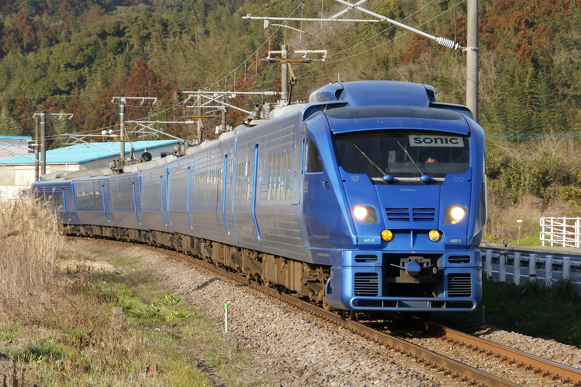 JR Kyushu 883 series EMU set AO-3 on a Sonic limited express service